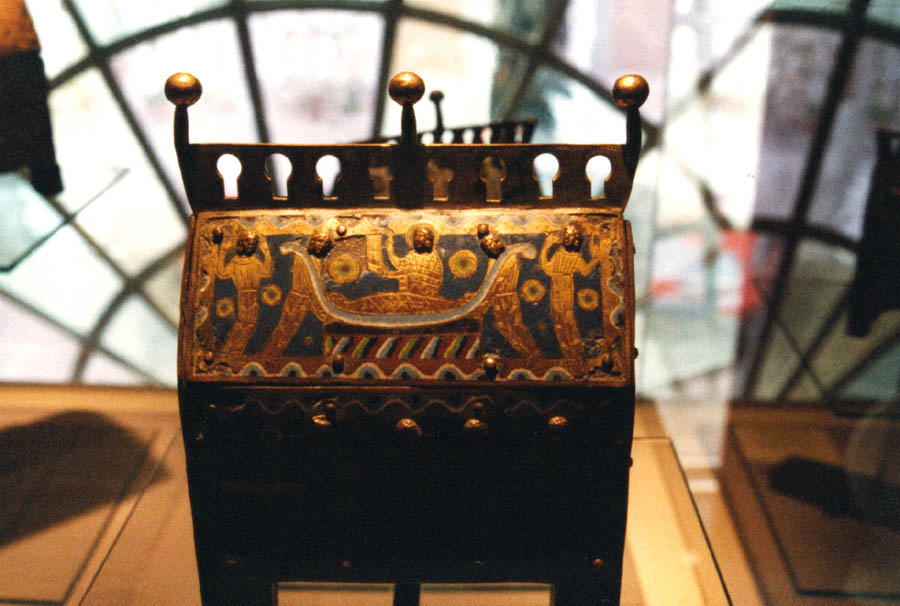 Thomas Becket reliquary, grandmontine enamel - Limoges (1200-1210) - Enameled coper (champlevé). Walon: Rèlikaîre di Thomas Becket, èmay grandmontin - Limôdje (1200-1210)- èmayè keûve.